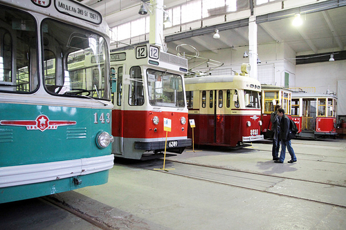 Museum Vasileostrovsky tram half-depot 4 interior